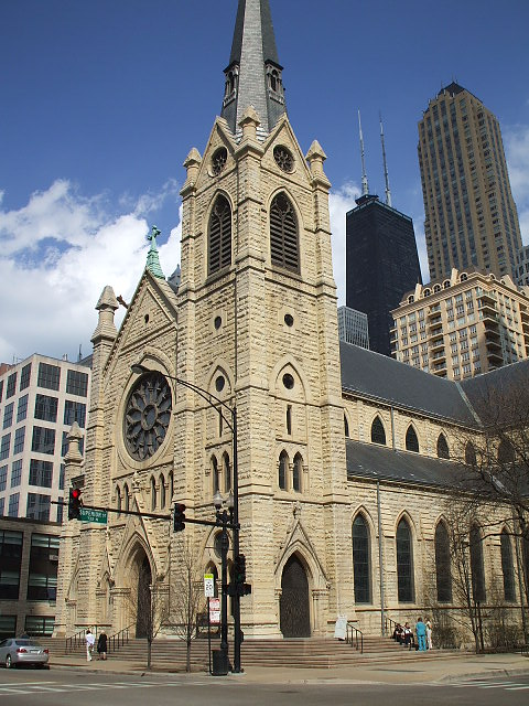 Holy Name Cathedral, Chicago taken by Gerald C. Farinas on Monday, March 26, 2007